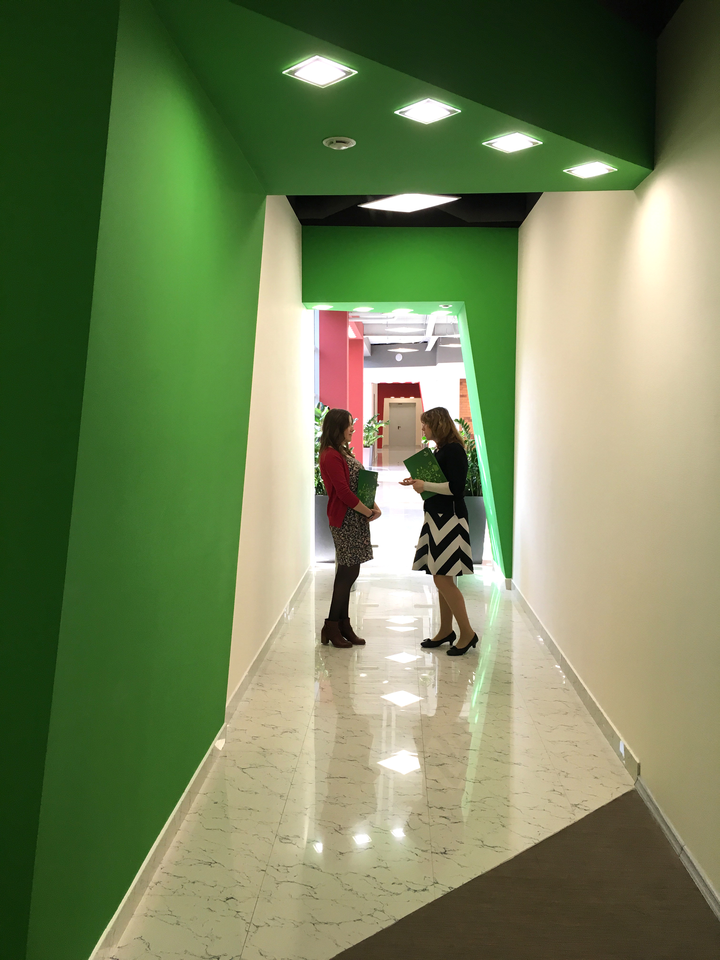 Office of 'InfoWatch' group of companies owned and lead by Natalya Kaspersky. Vereyskaya Plaza in Moscow, Russia.